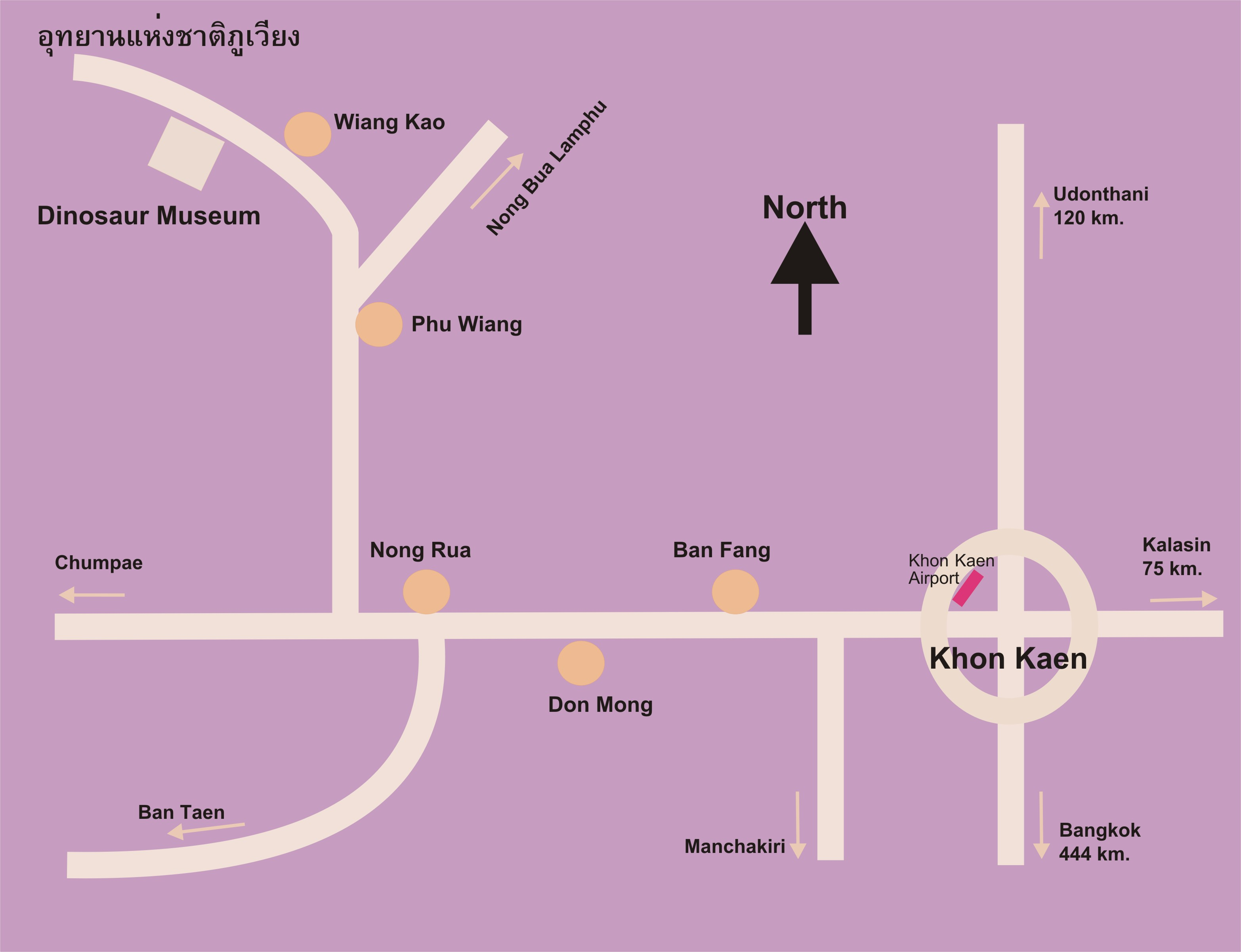 Route map demonstrating the way from Khon Kaen city to accessing the Phu Wiang Dinosaur Museum with total 80 kilometers.